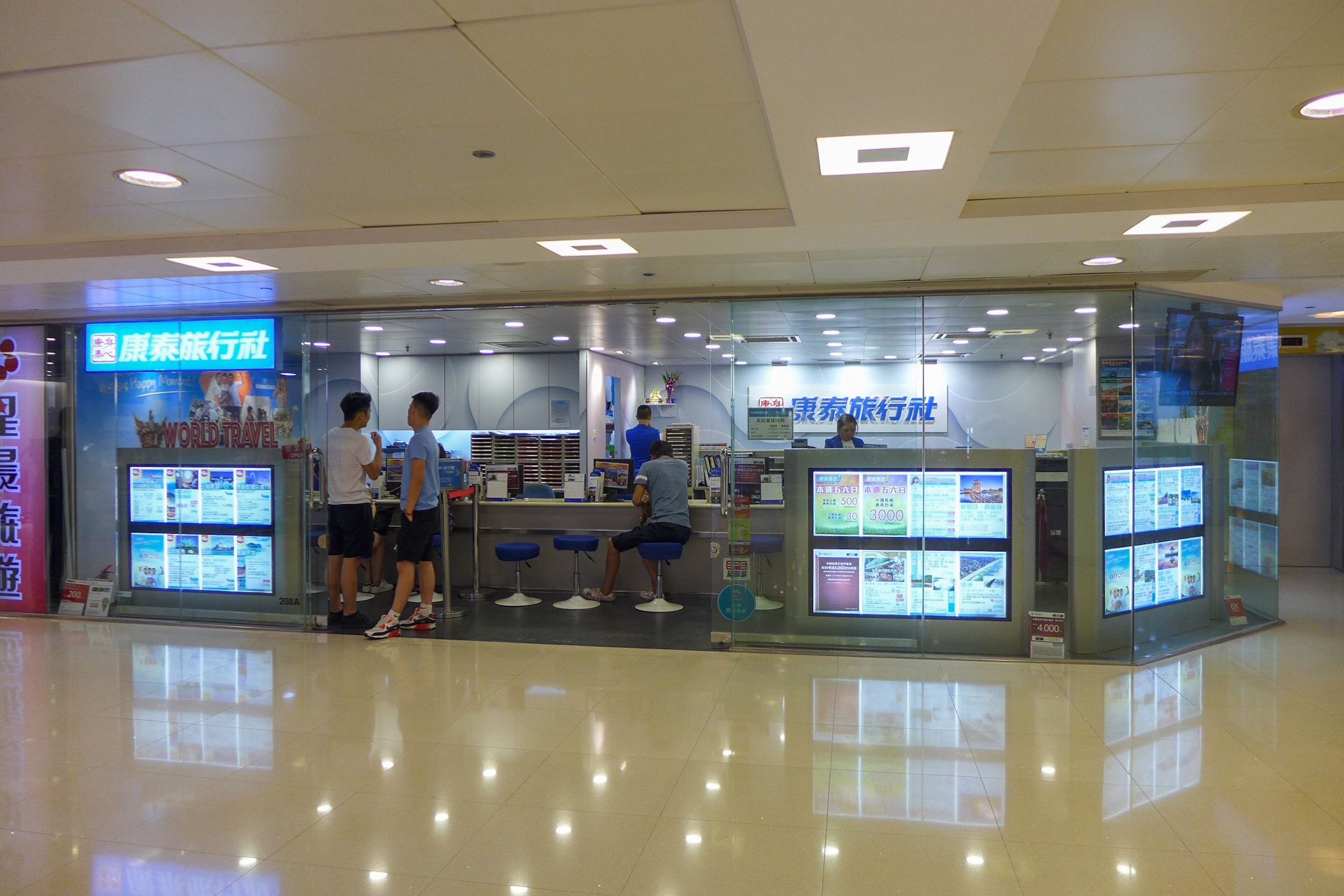 Hong Tai Travel East Point City Branch